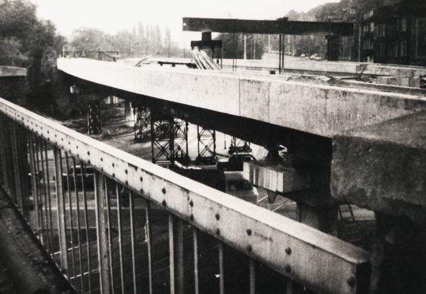 Construction of PST in Poznan. 1991.